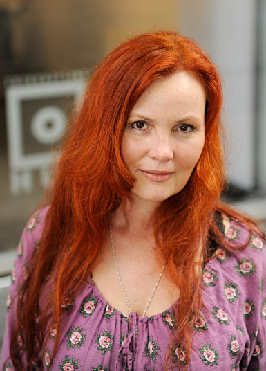 Norwegian photographer Anne Helene Gjelstad Norsk (bokmål): Fotografen Anne Helene Gjelstad